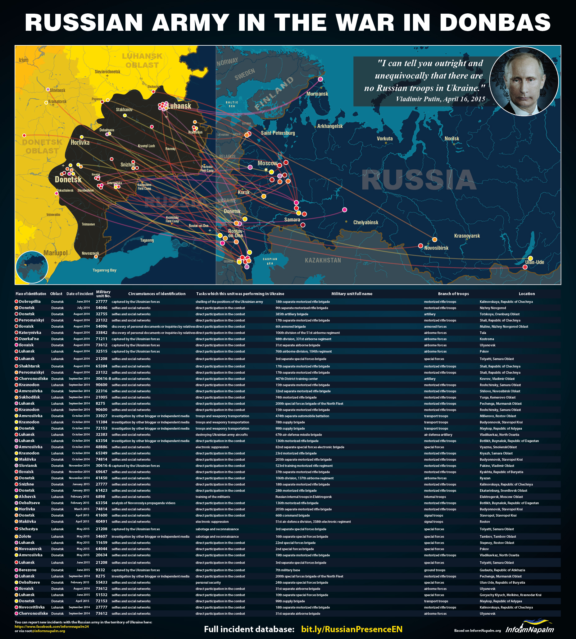 Russian army in the war in Donbas